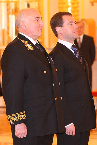 THE KREMLIN, MOSCOW. Presentation ceremony of foreign ambassadors’ letters of credentials. With Ambassador of the Republic of Abkhazia Igor Akhba.